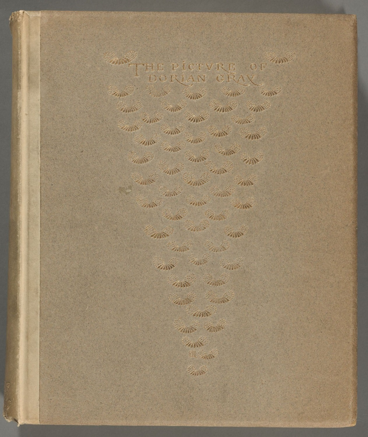 Cover of the first book edition of The Picture of Dorian Gray by Oscar Wilde (1854-1900). London; New York: Ward, Lock, 1891. HEW 12.10.15, Houghton Library, Harvard University